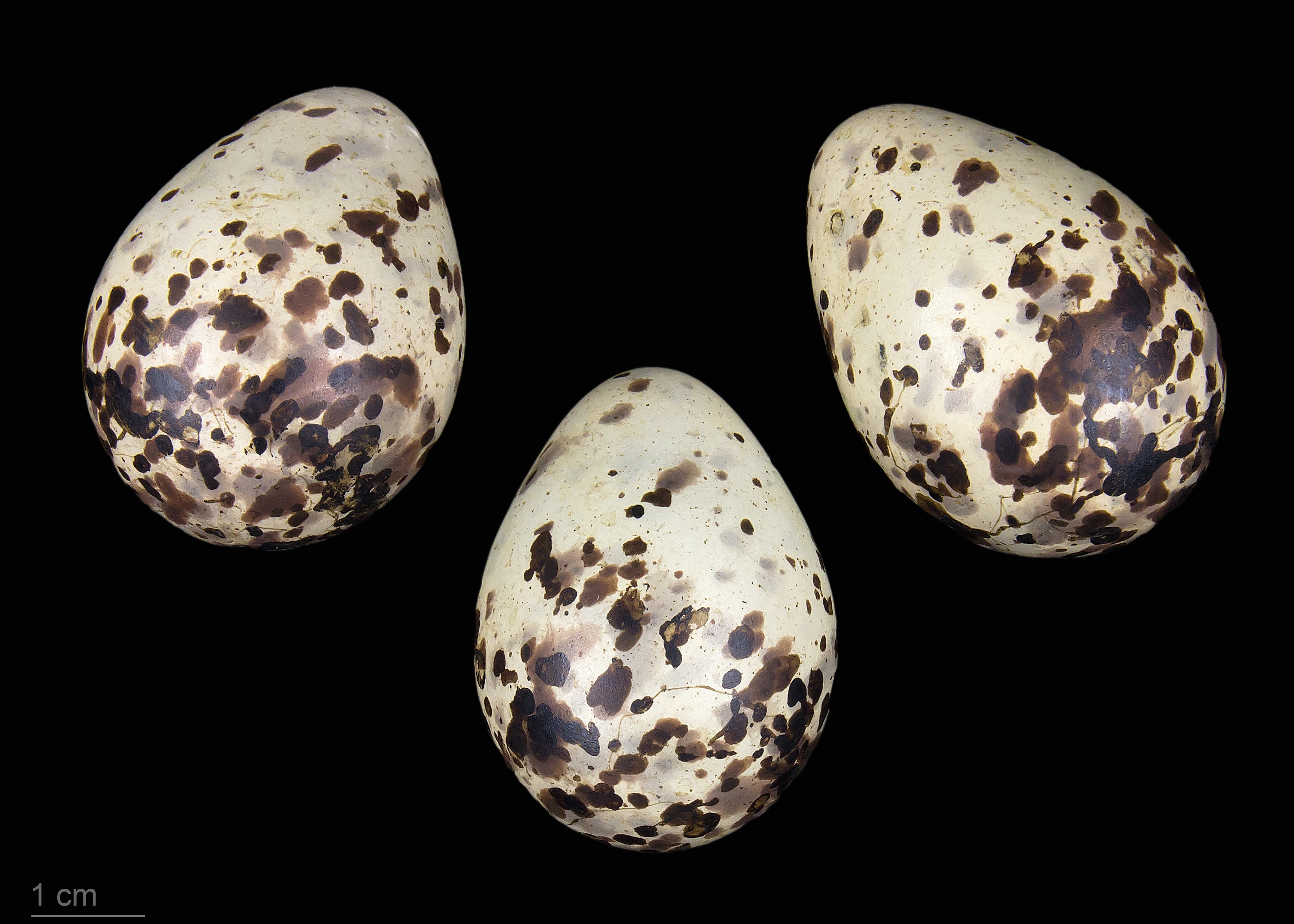 Eggs of Gallinago gallinago faeroeensis Three specimens of the same spawn ; collection of Jacques Perrin de Brichambaut.